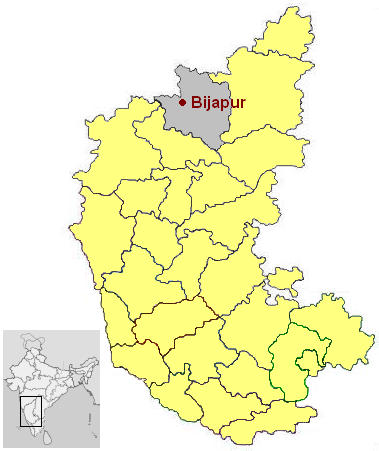 Location of Bijapur district and city within Karnataka state own work